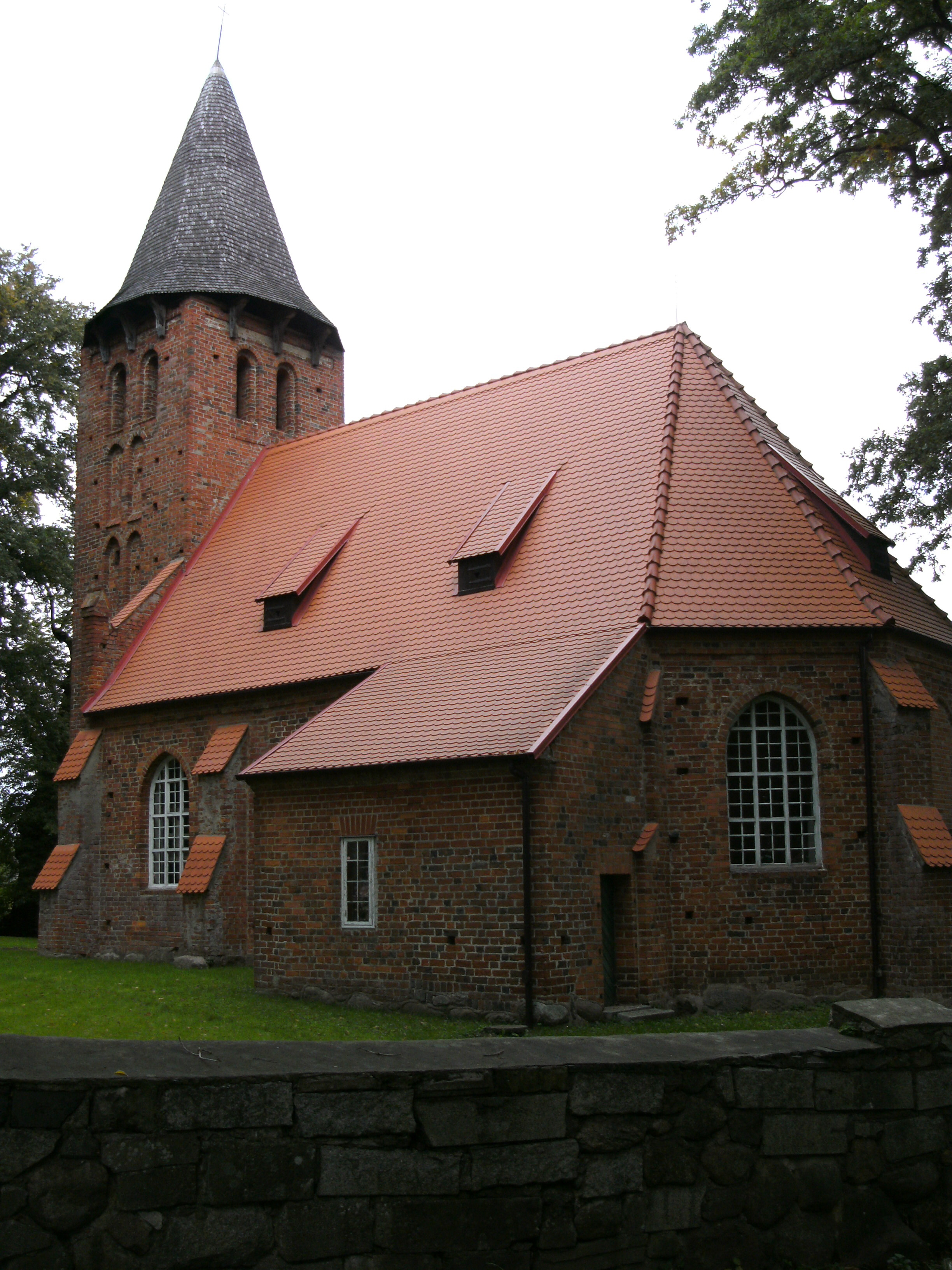 Exaltation of the Holy Cross church in Stary Jarosław, Gmina Darłowo, Sławno County, West Pomeranian Voivodeship, Poland